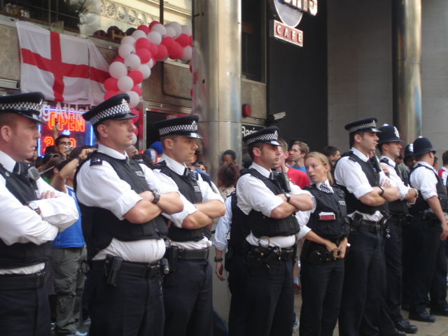 Metropolitan Police officers on crowd control after England loses to Portugal, 1 July 2006.